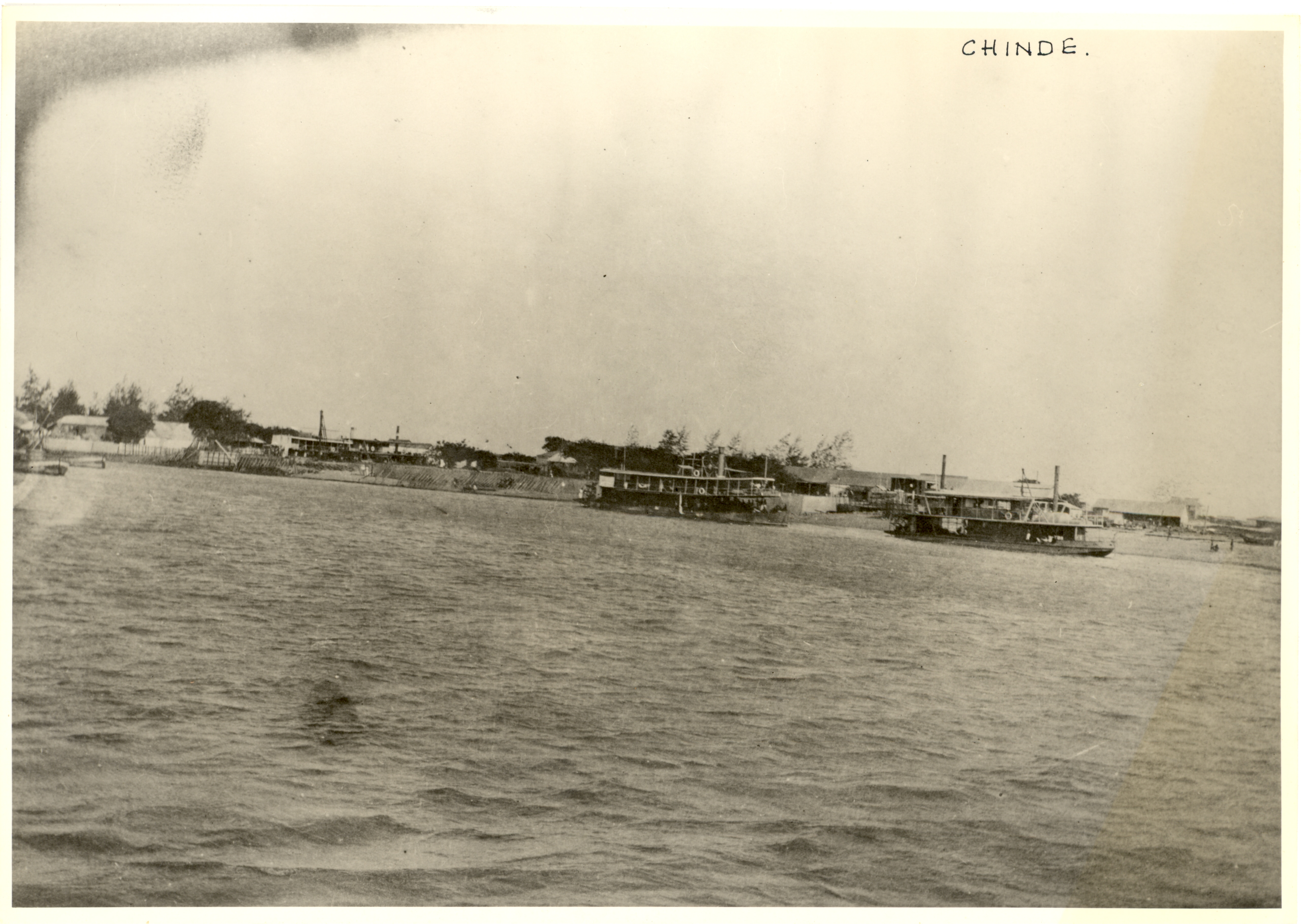 View of Chinde, entry to Zambezi River from Indian Ocean